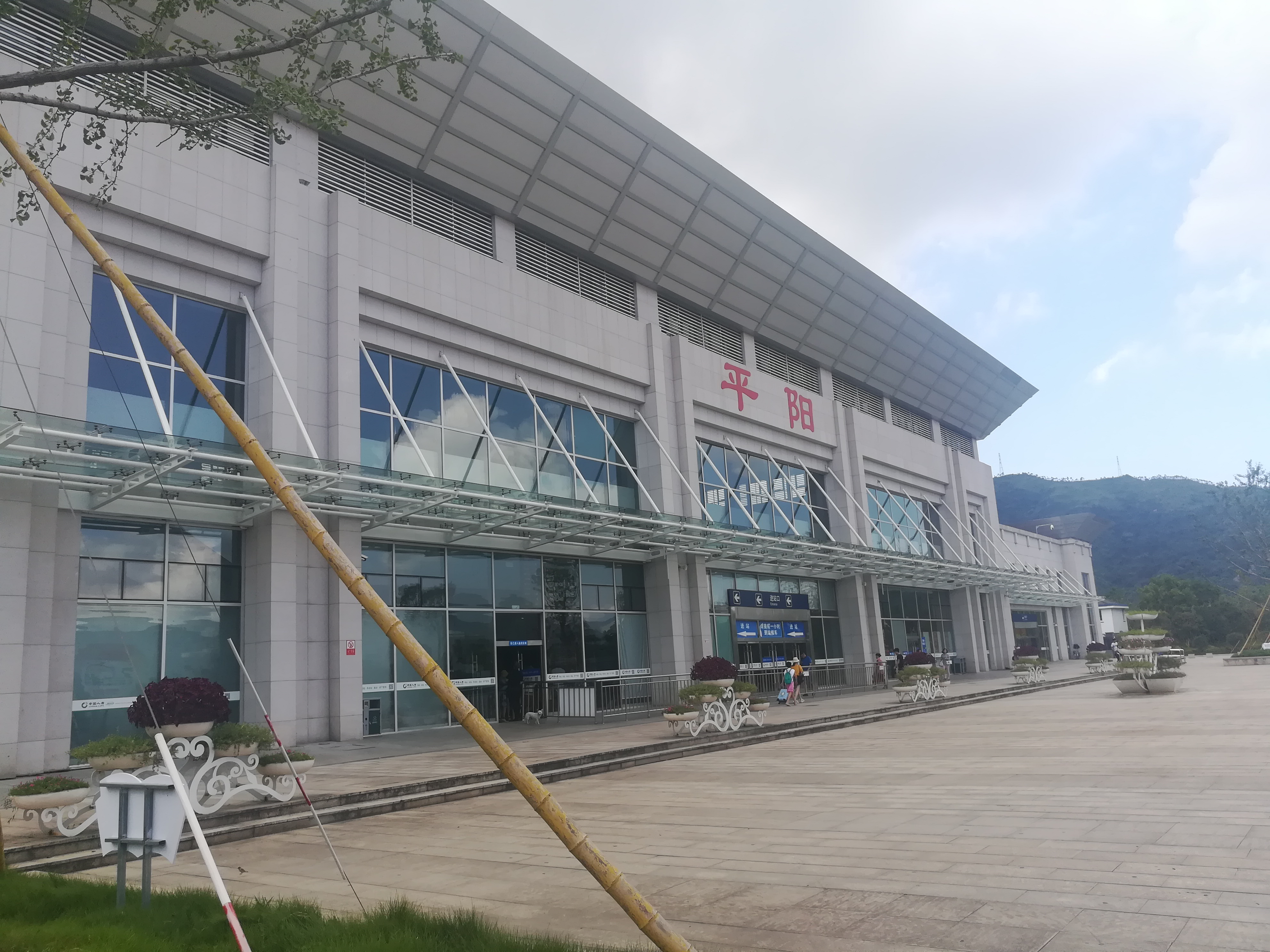 Pingyang Railway Station 20190730